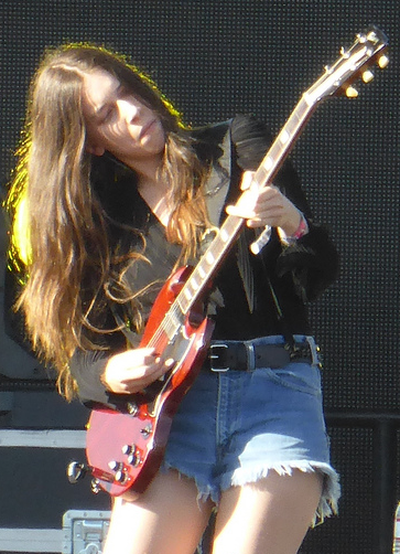 This file depicts Danielle Haim performing